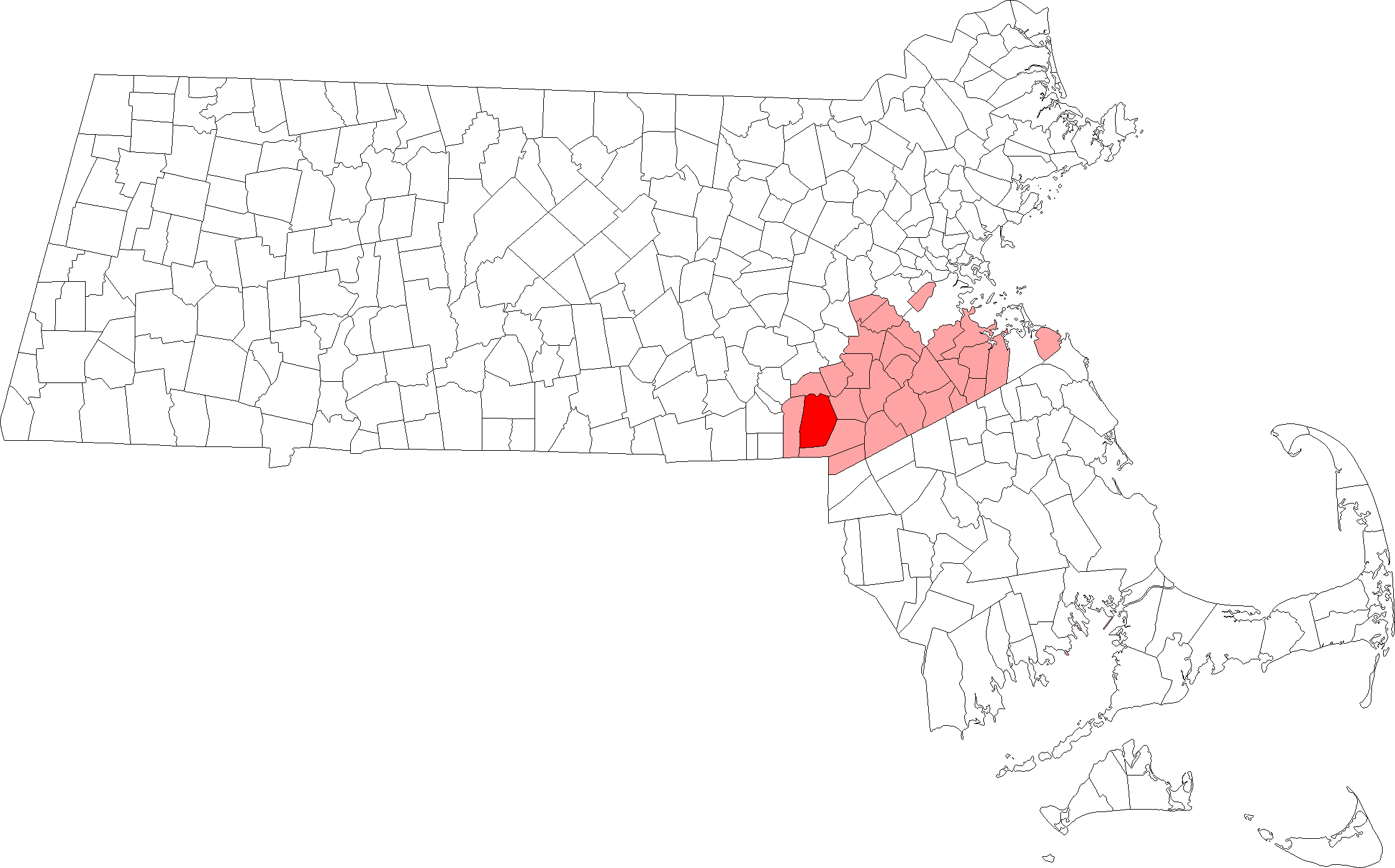 Location of Franklin in Norfolk County, Massachusetts